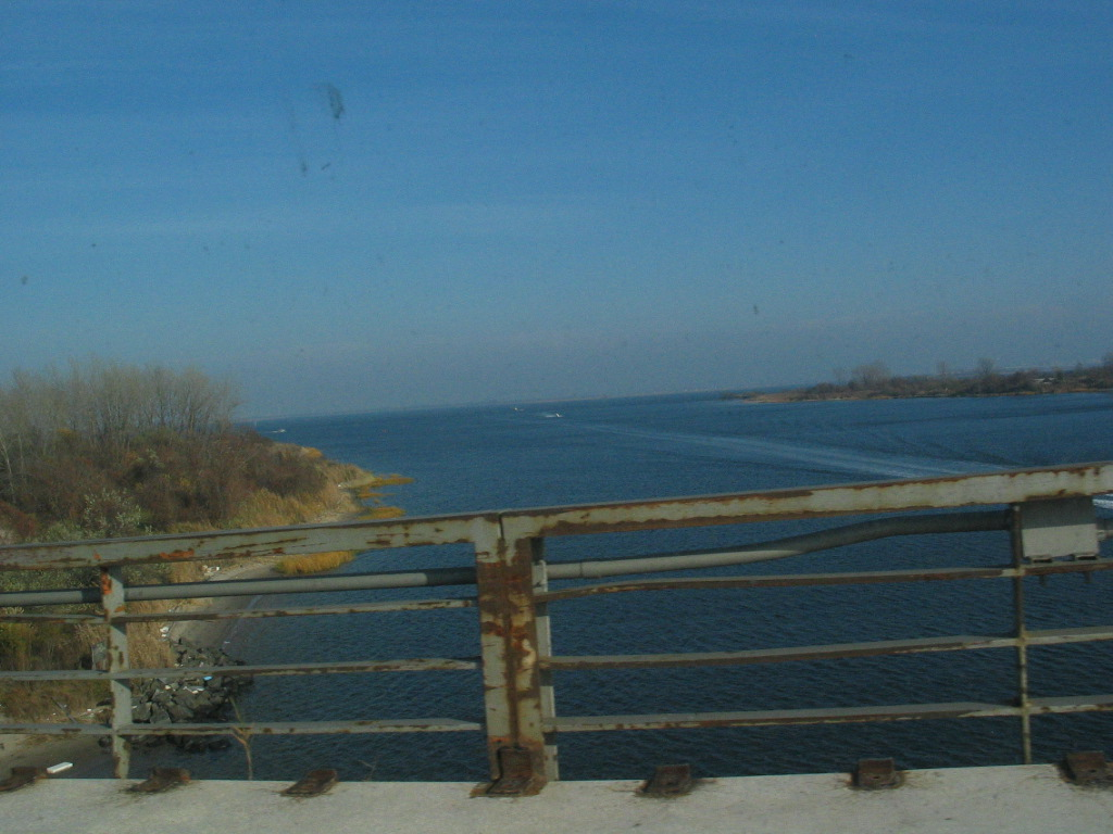 Belt Parkway is crossing a Mill Basin Creak, which enters into entdless water space of Jamaica Bay, and further to Atlantic Ocean